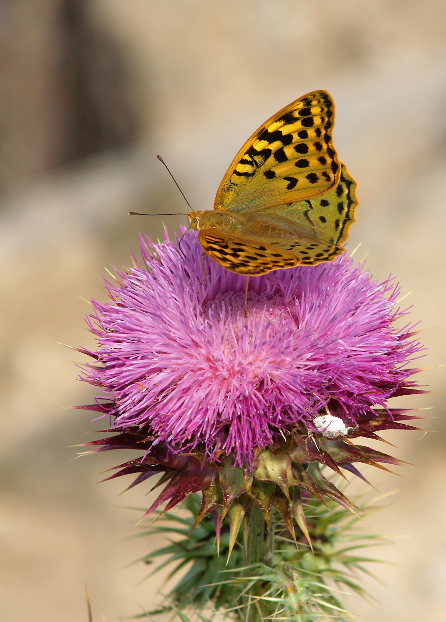 Argynnis pandora on Cotton thistle (Onopordum acanthium), Thasos, Greece